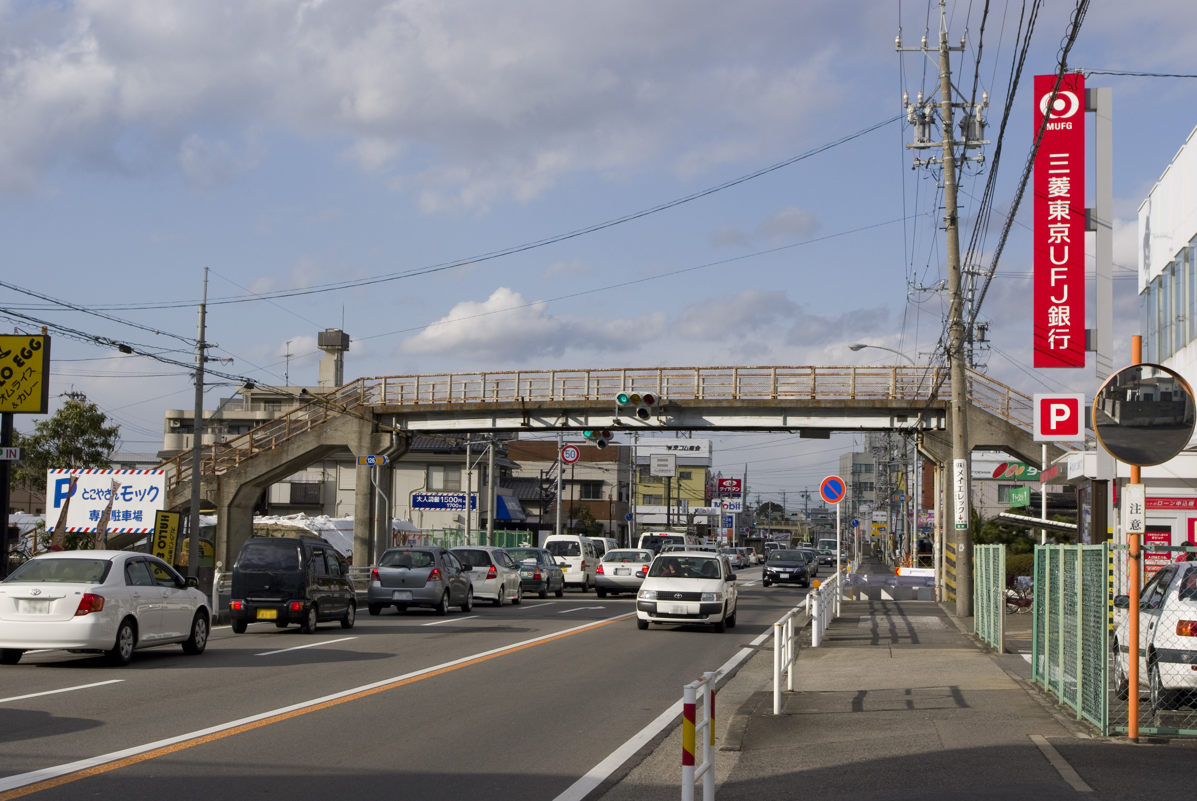 "Nishibiwajima-cho Footbridge"(Japan's oldest footbridge) in Kiyosu, Aichi, Japan. Built in 1959. 46.8 meter long.